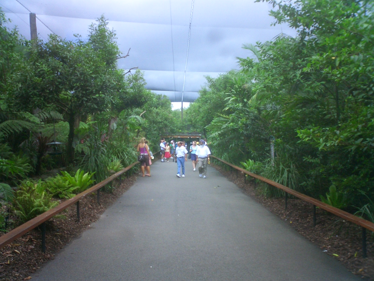 Australia Zoo, Sunshine Coast, Australia. View of the aviary. By Raffi Kojian.